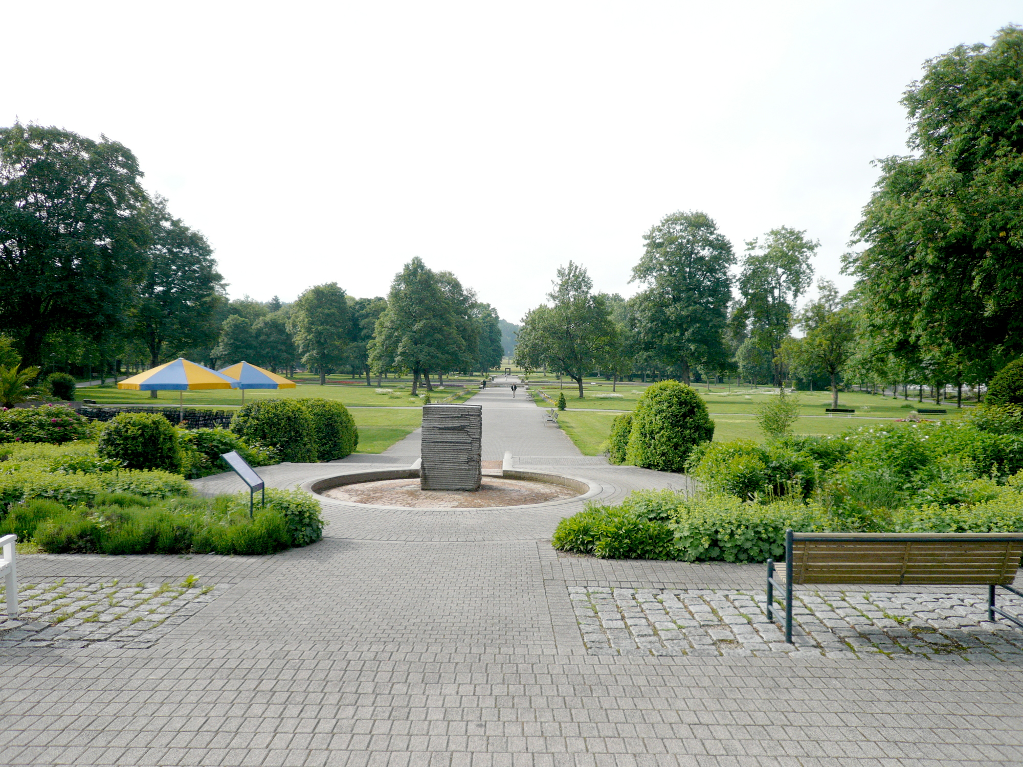 Parque at Bad Duerrheim